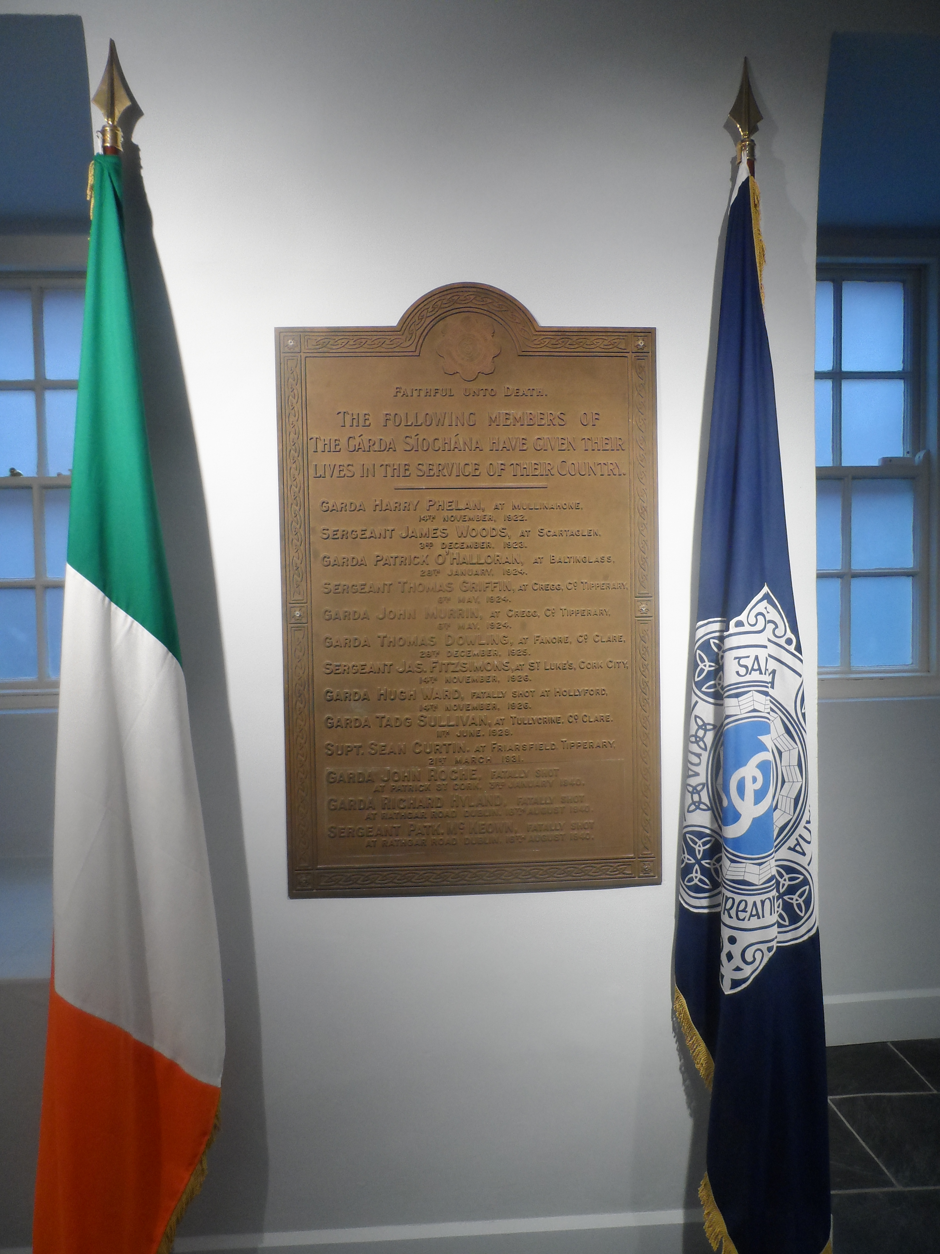 Roll of honour - Gardai killed on duty